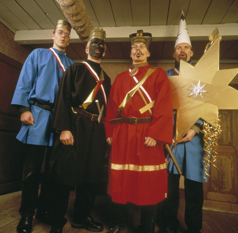 Tiernapojat (Star singers) of the Tavastian nation male choir.